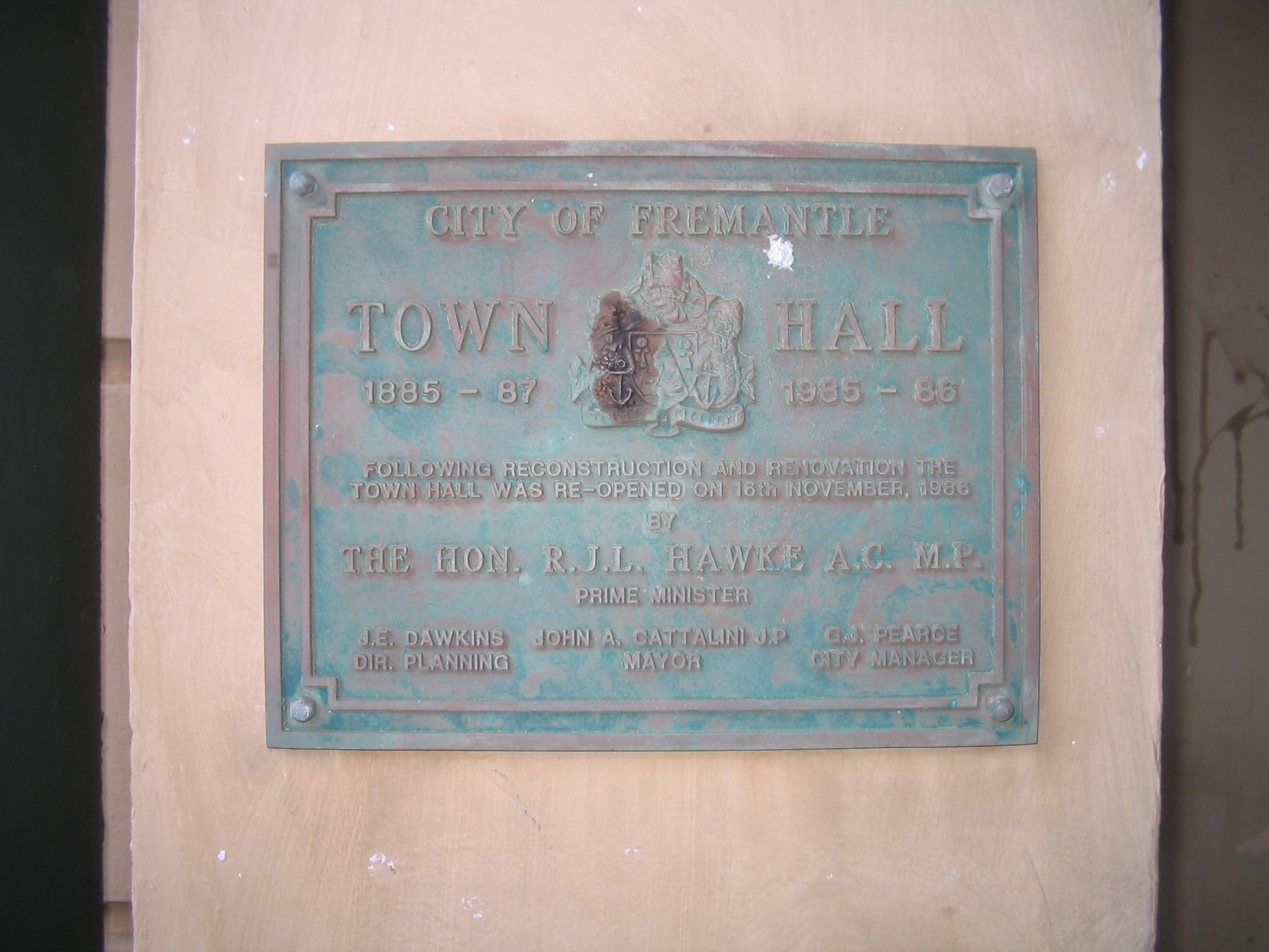 Fremantle Town Hall